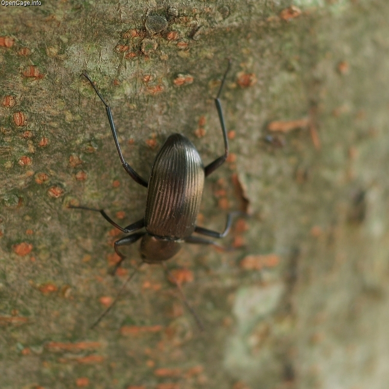 キマワリ Plesiophthalmus nigrocyaneus Location Nishi-ku, KOBE, Japan Copyright OpenCage